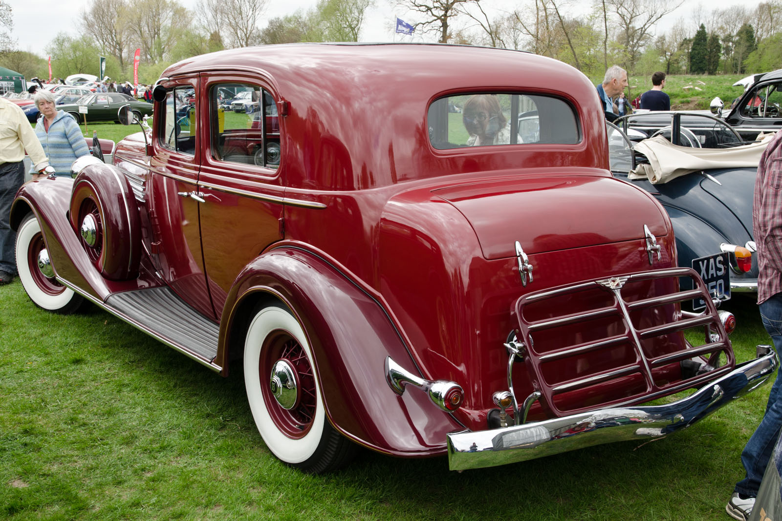 Catton Hall Classic Car Show 05/05/2013